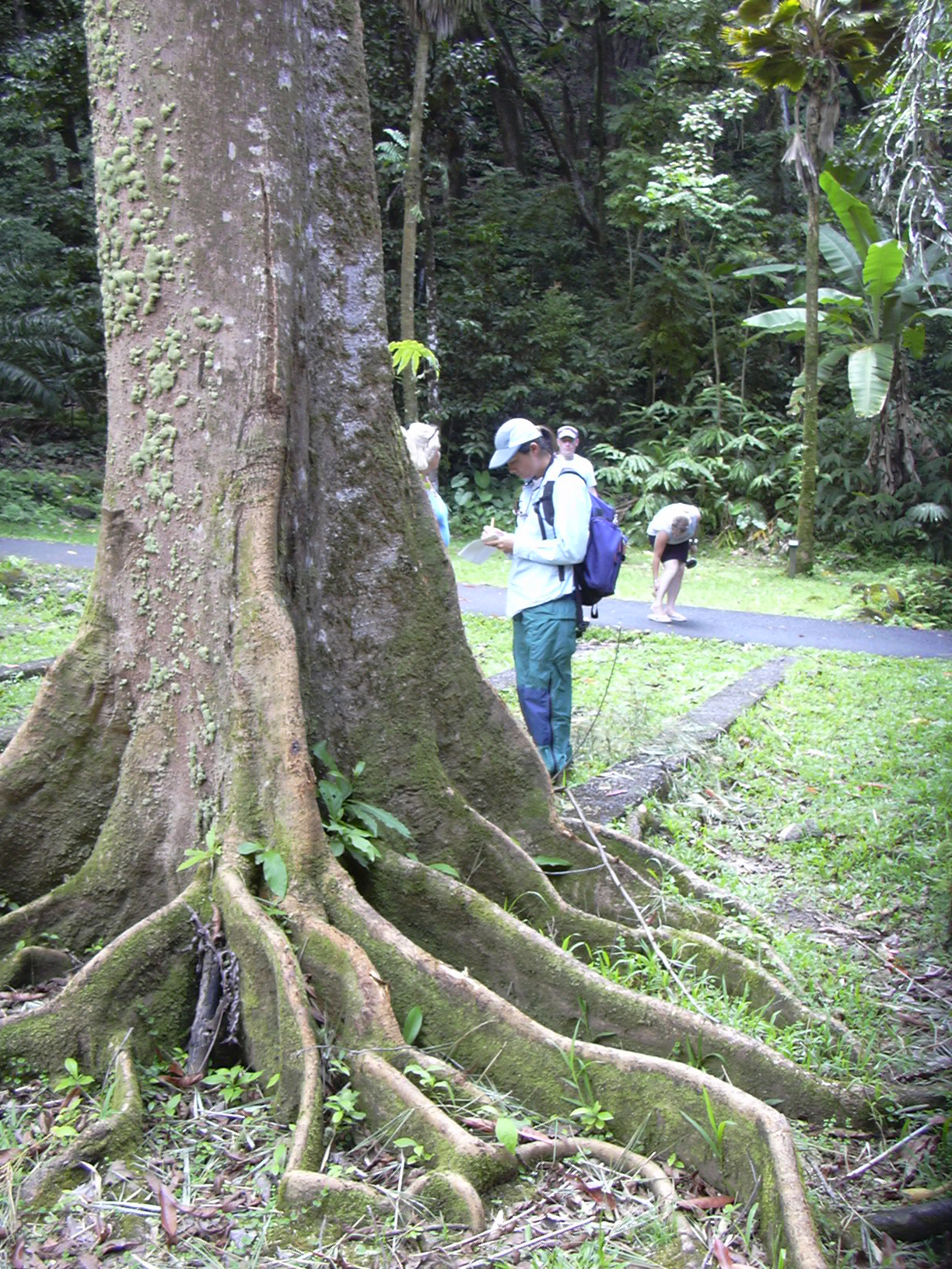 Elaeocarpus angustifolius (syn. E. grandis), trunk. Location: Maui, Keanae Arboretum